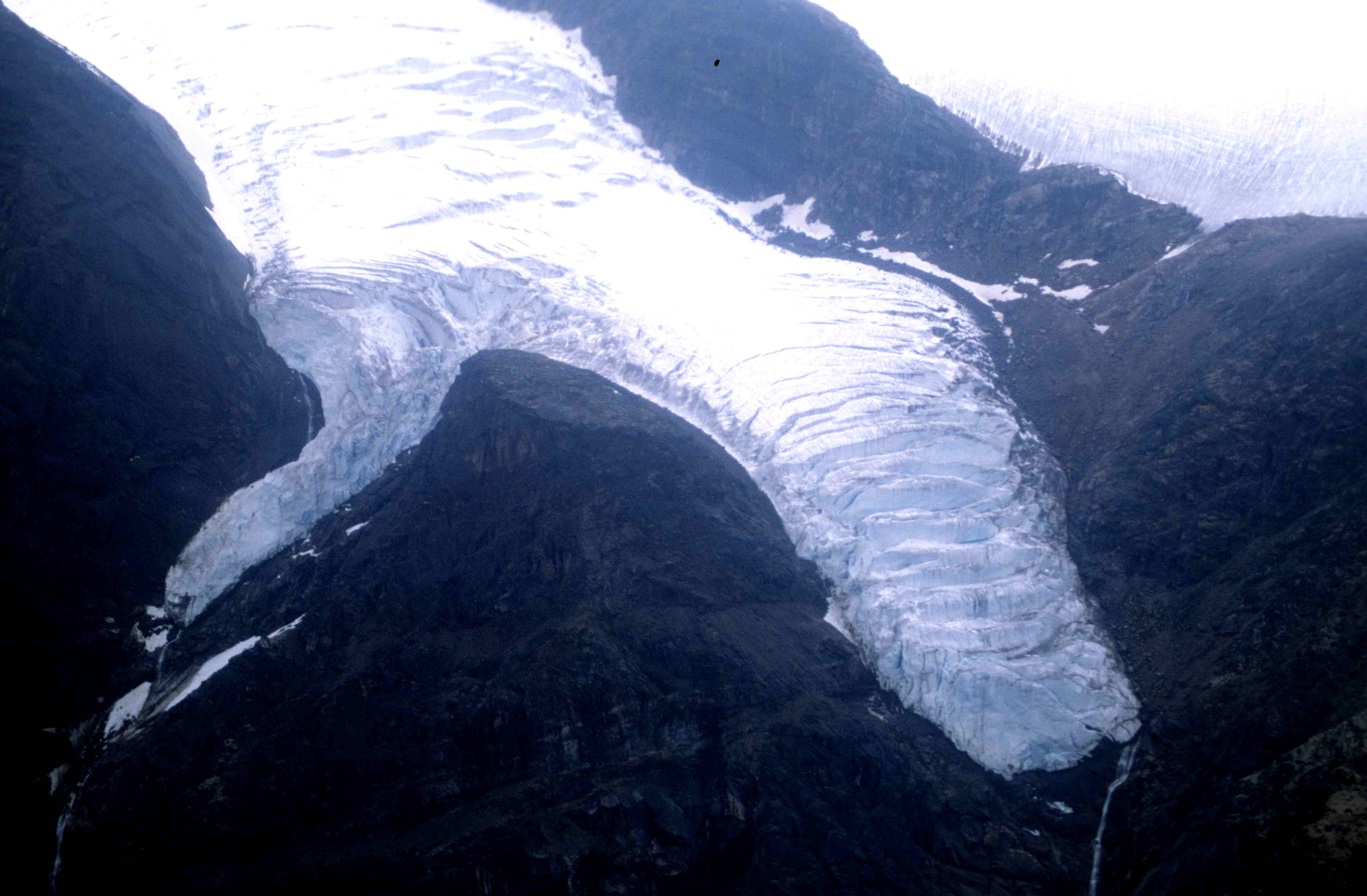 Auyuittuq National Park: Bear’s Paw Glacier and Tirokwa Peak